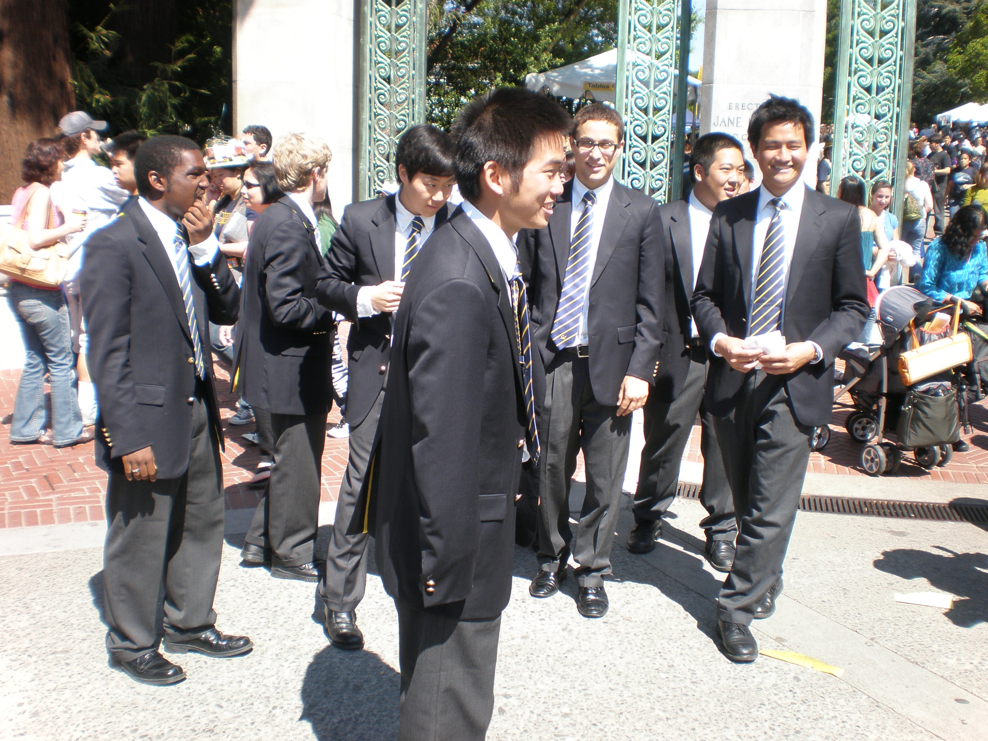 The UC Men's Octet after performing on Upper Sproul Plaza during Call Day 2009.